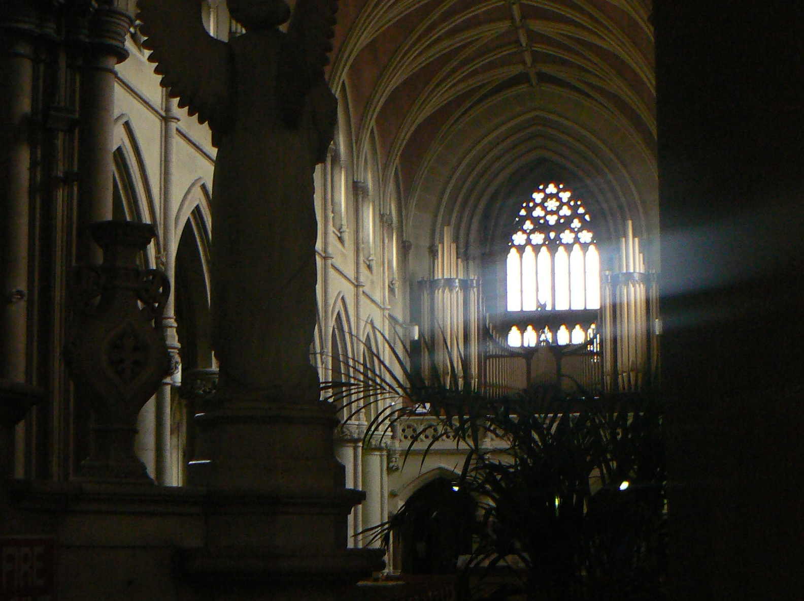 The organ as seen from the Sanctuary. St. Peter's Church Phibsborough.